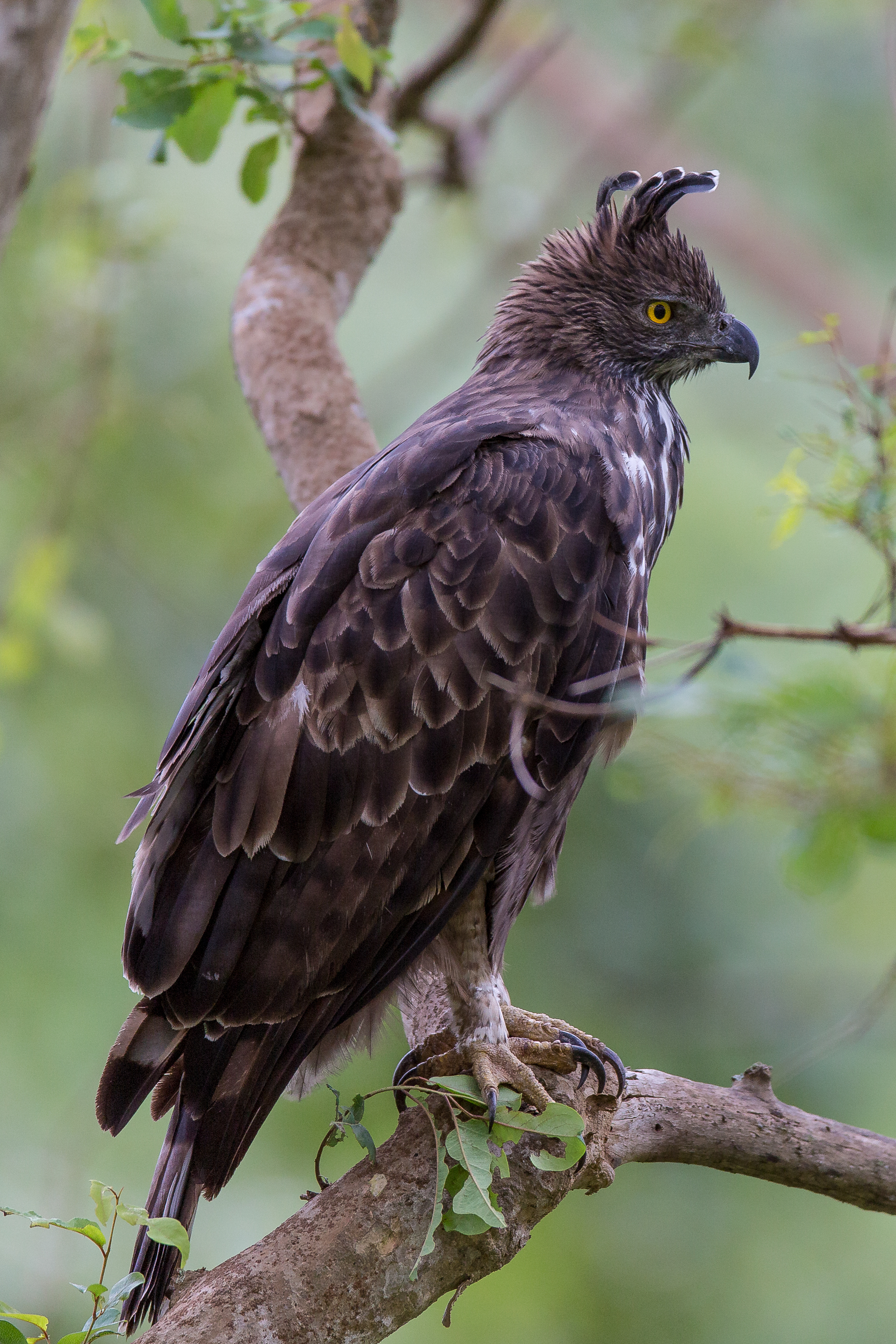 crested hawk eagle from kabini reservoir